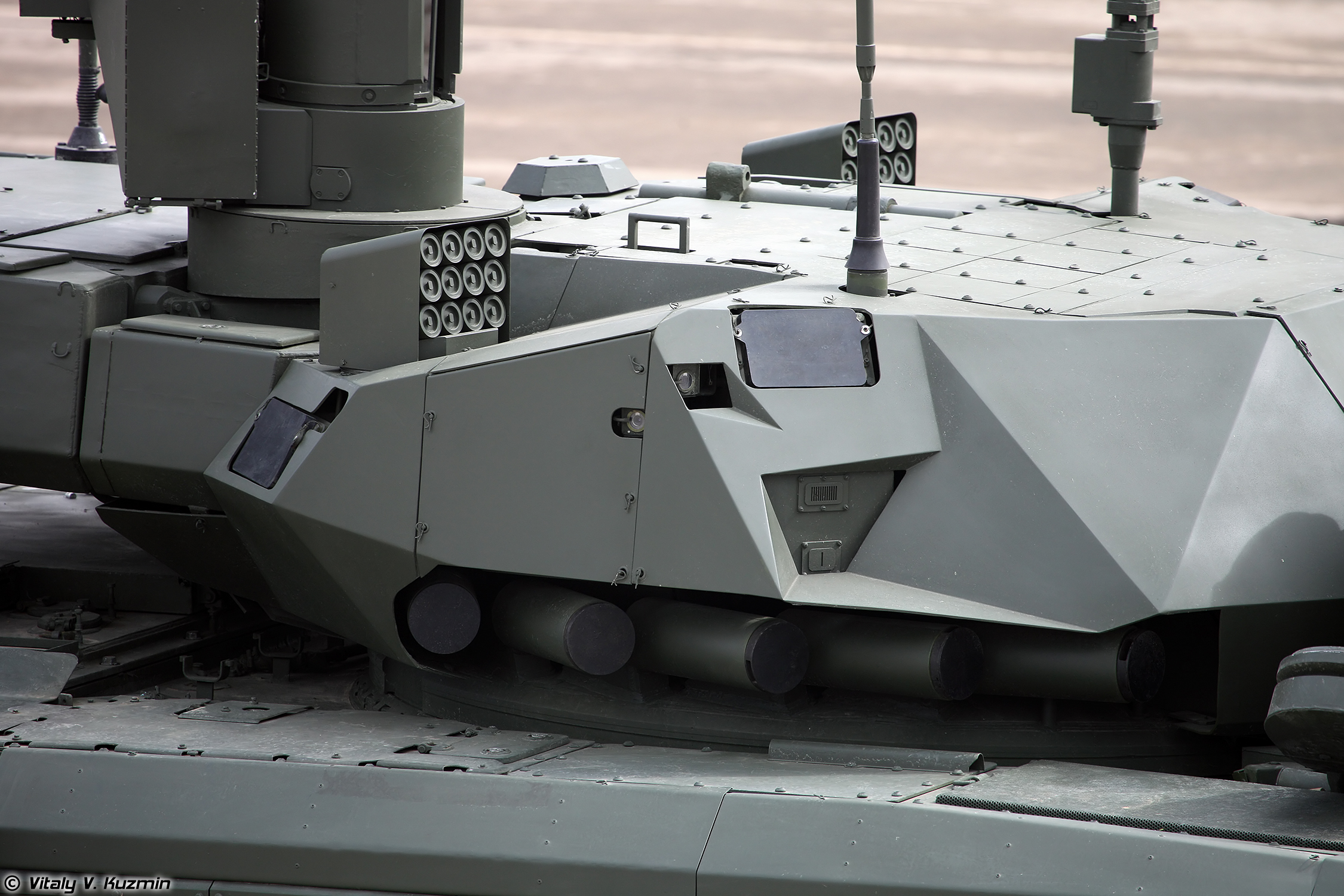 Main battle tank T-14 object 148 on heavy unified tracked platform Armata